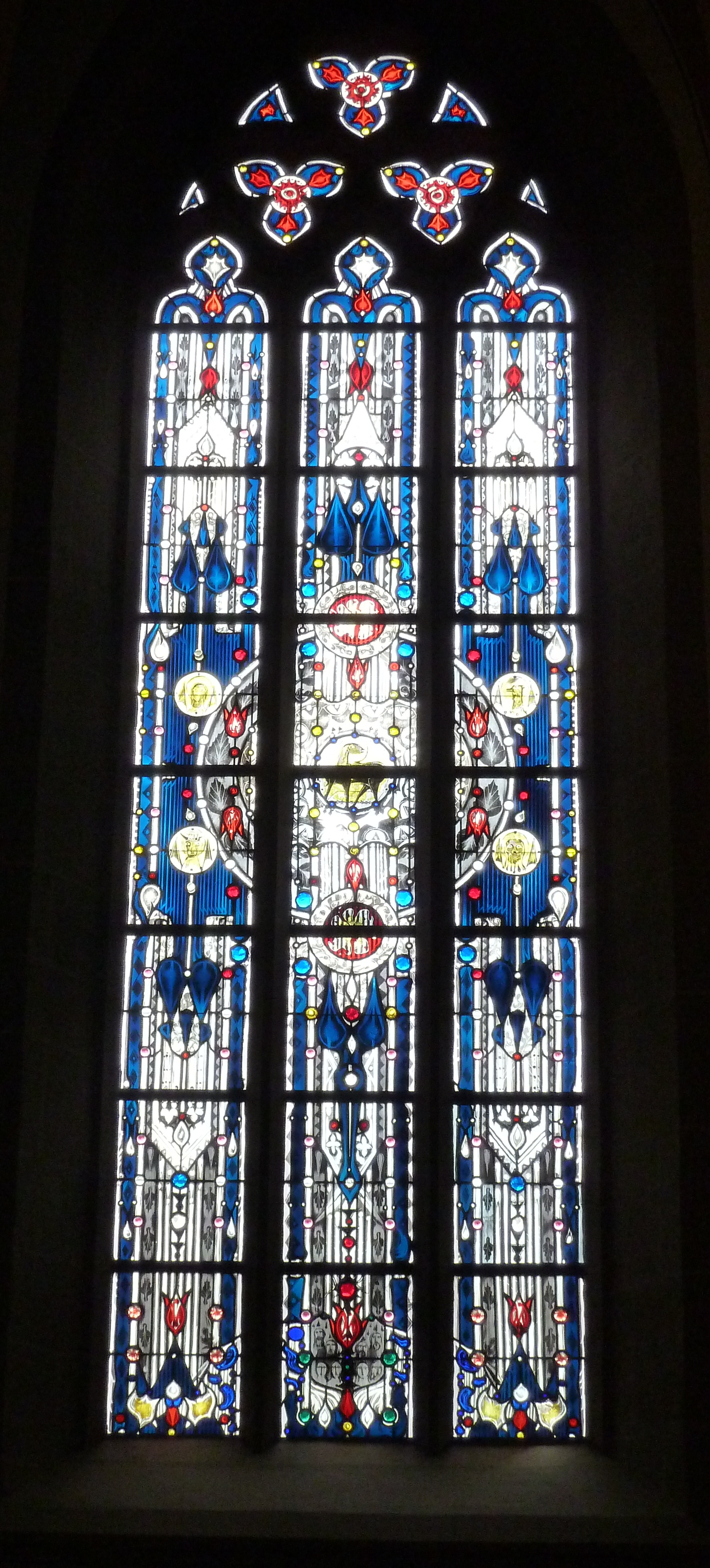 own file